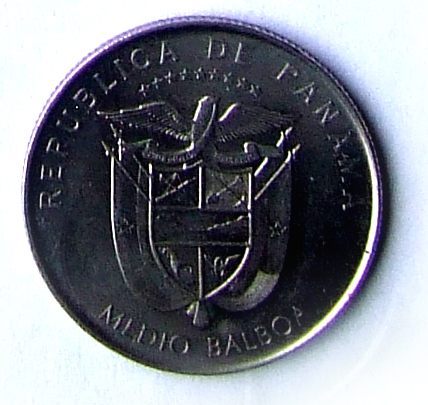 coin of 50 cent of balboa reverse